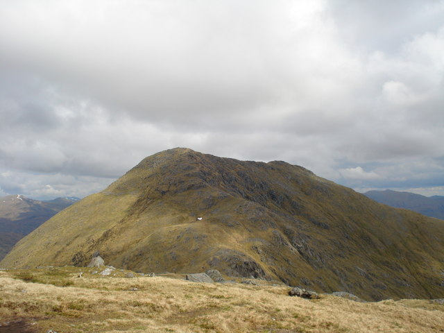 Sgurr Mor Sgurr Mor from Sgurr Beag